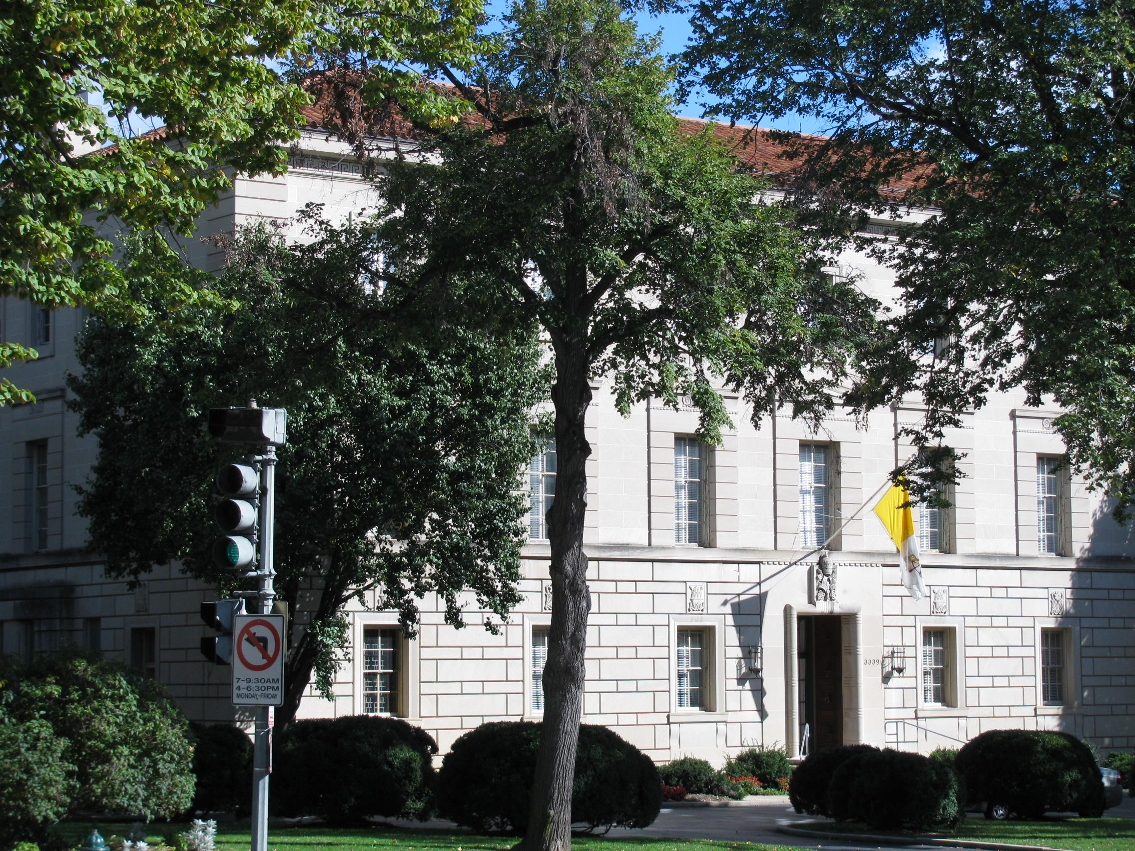 Apostolic Nunciature to the United States Washington, D.C.